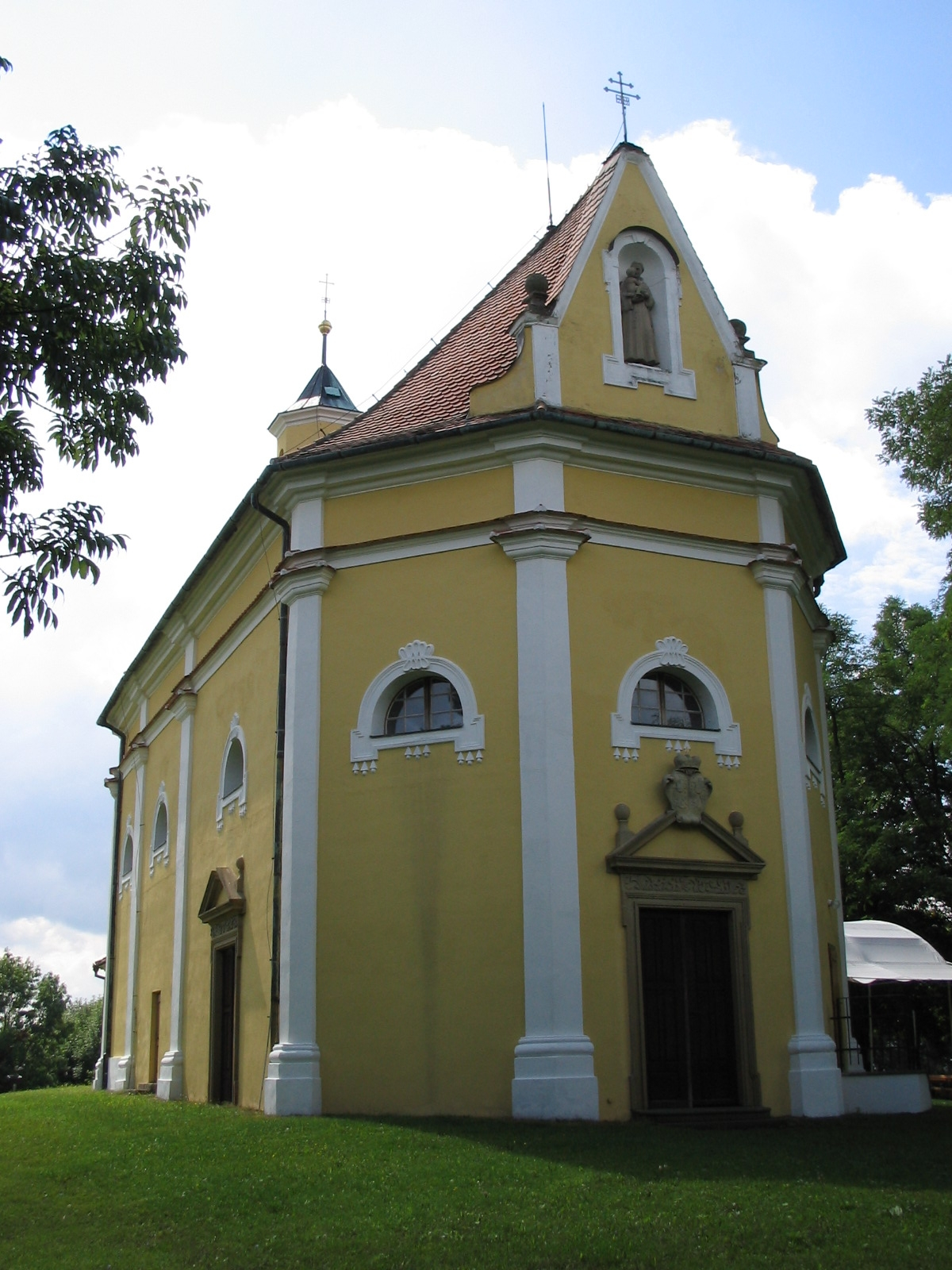 Pilgrimage chapel of St Anthony of Padua near Blatnice pod Svatým Antonínkem, Hodonín District, Czech Republic. Close look from the north.